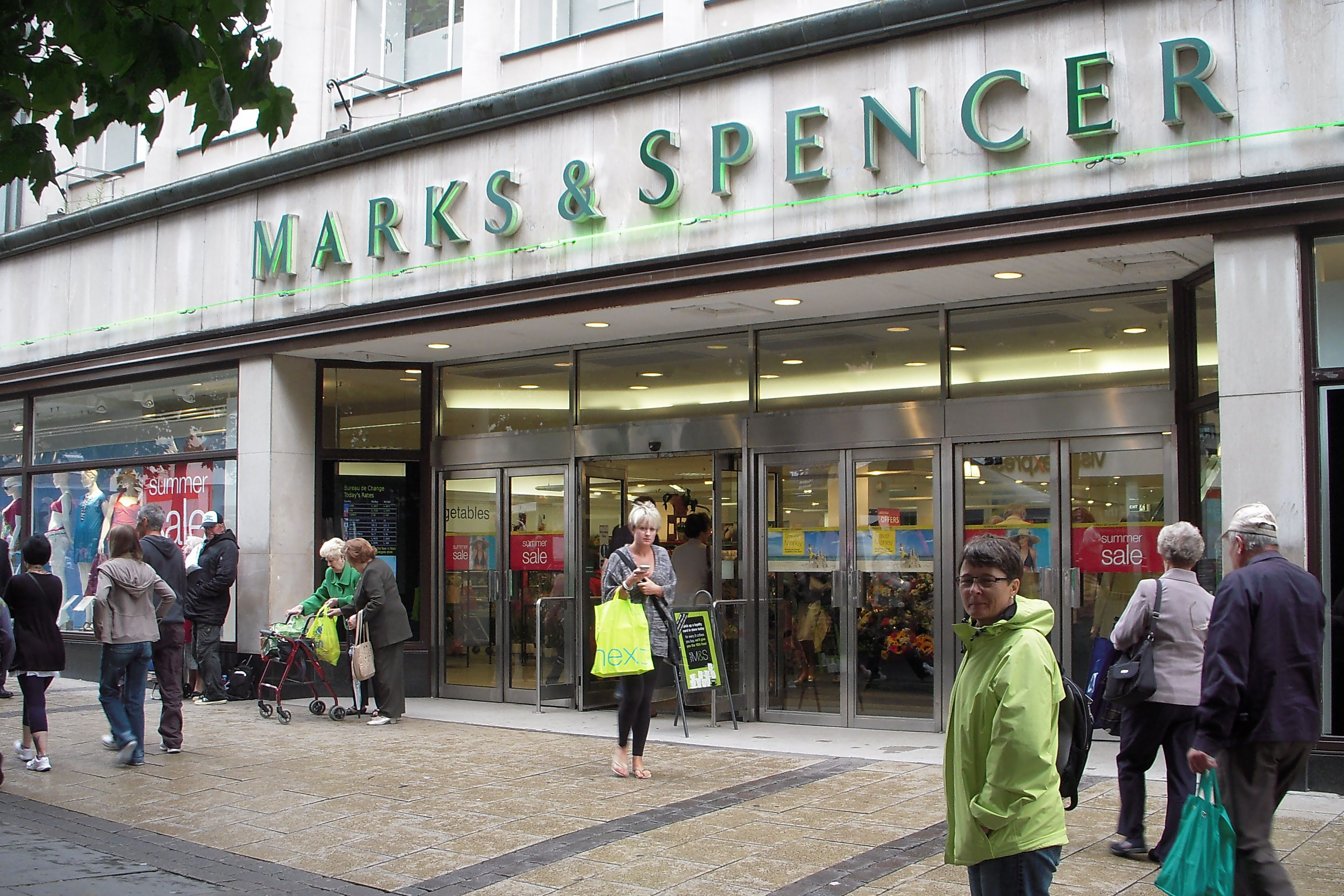 Marks & Spencer in York, july 2011